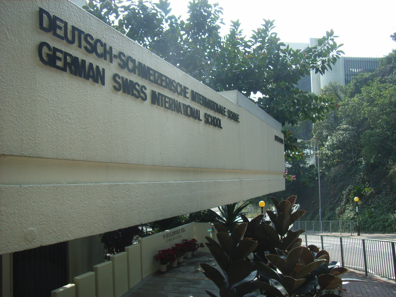 German Swiss International School (Middle Block), 11 Guildford Road, Peak Road, the Victoria Peak, Hong Kong.